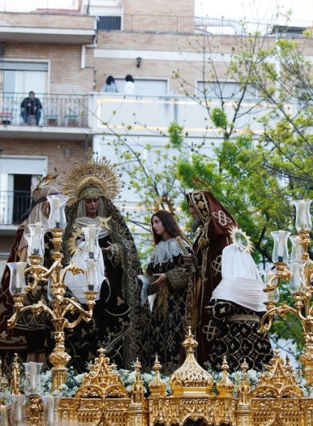 semana santa en sevilla